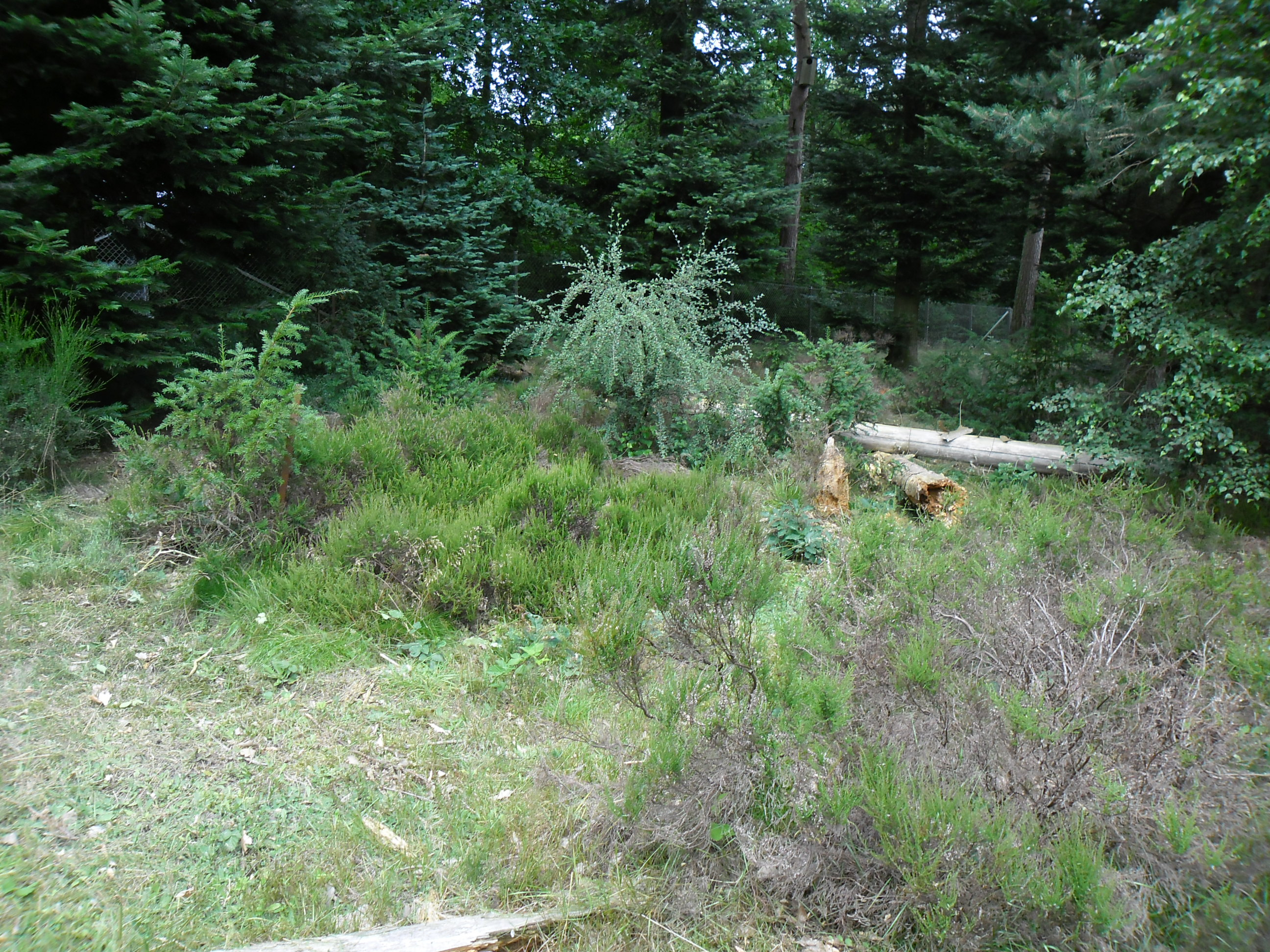 From the Arboretum paludosum (Wet ground arboretum) in Silkeborg, Denmark